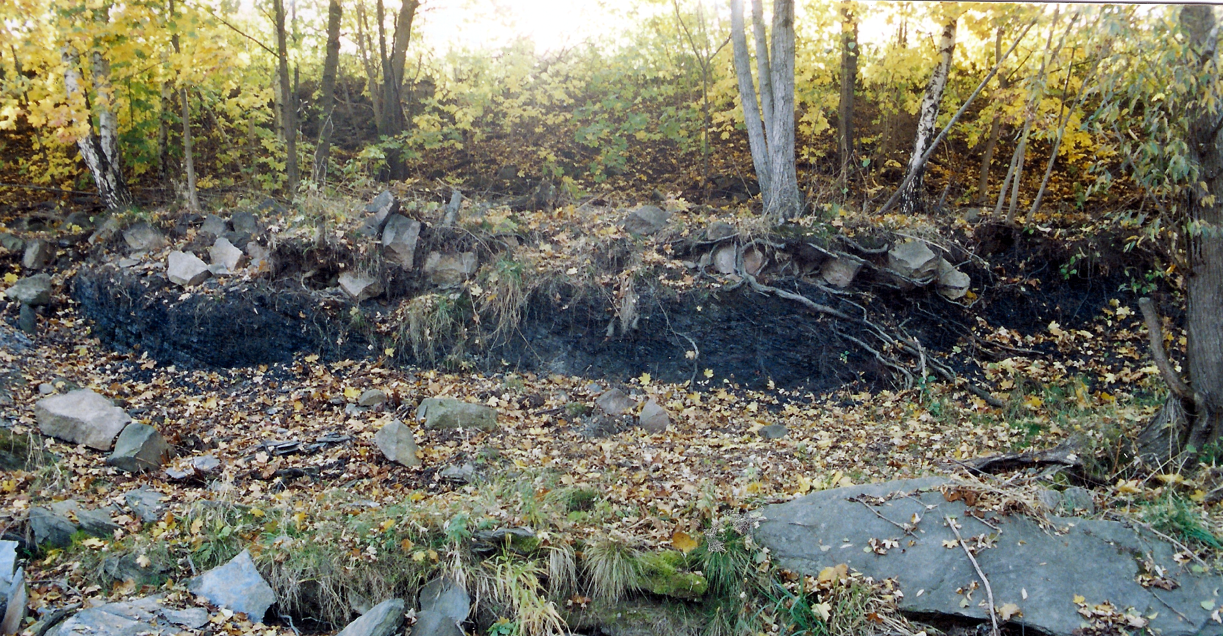 Outcrop of a hard coal seam (so called "Rußkohleflöz") at the Zwickauer Mulde River in Zwickau-Cainsdorf, Upper Carboniferous of the Ore Mountains foreland basin, Saxony, Germany